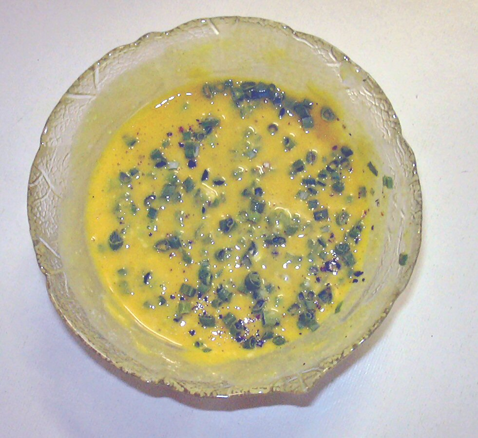 Sauce béarnaise